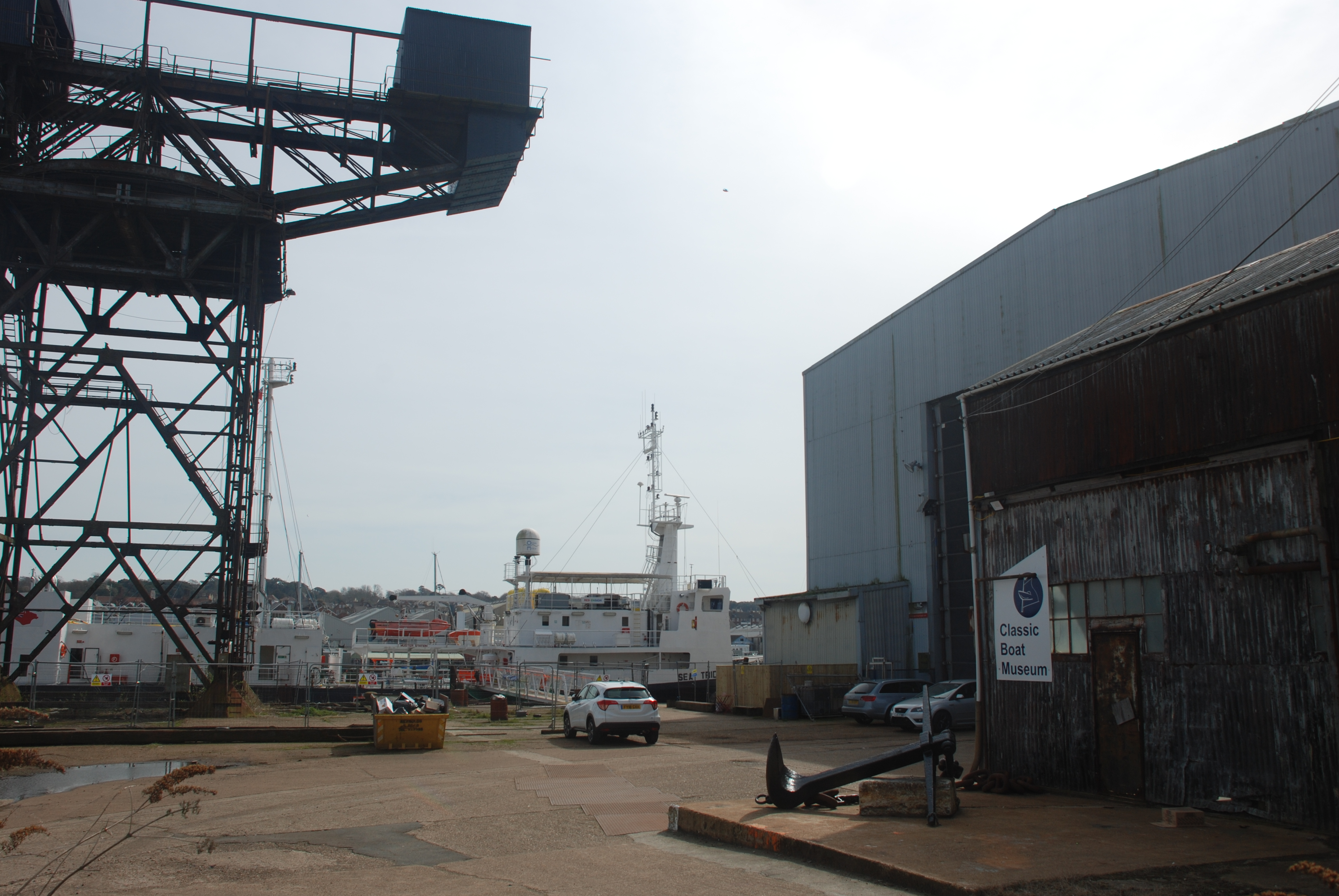 Entrance to the Boat Shed